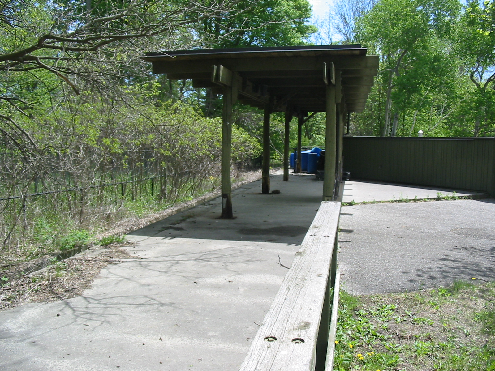 The remains of the Weston station on the former Toronto Zoo Domain Ride. This monorail opened in 1976, and closed in 1994 after a train lost power and rolled backwards down the track into a second train, injuring about 30 people.